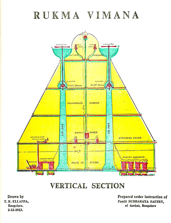 Draw of a Vertcial Section of a Vimana described on Ramayan, one of the two great epics of Hinduism